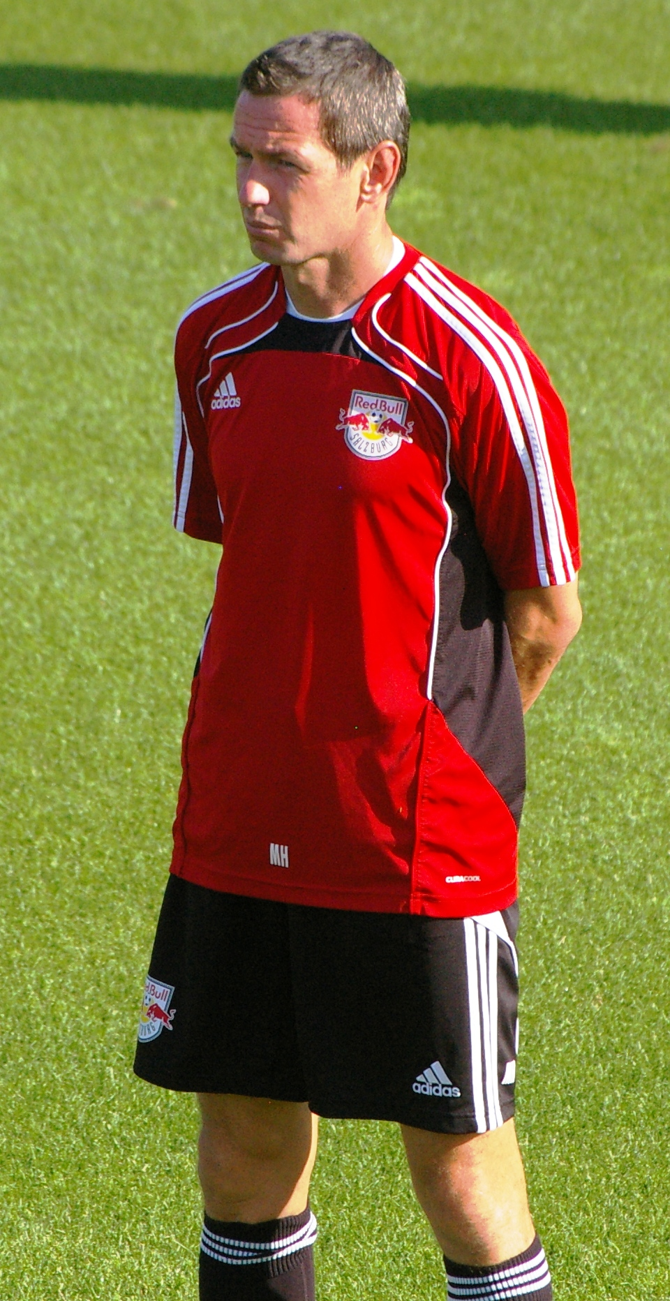 assistance coach Red Bull Salzburg Juniors